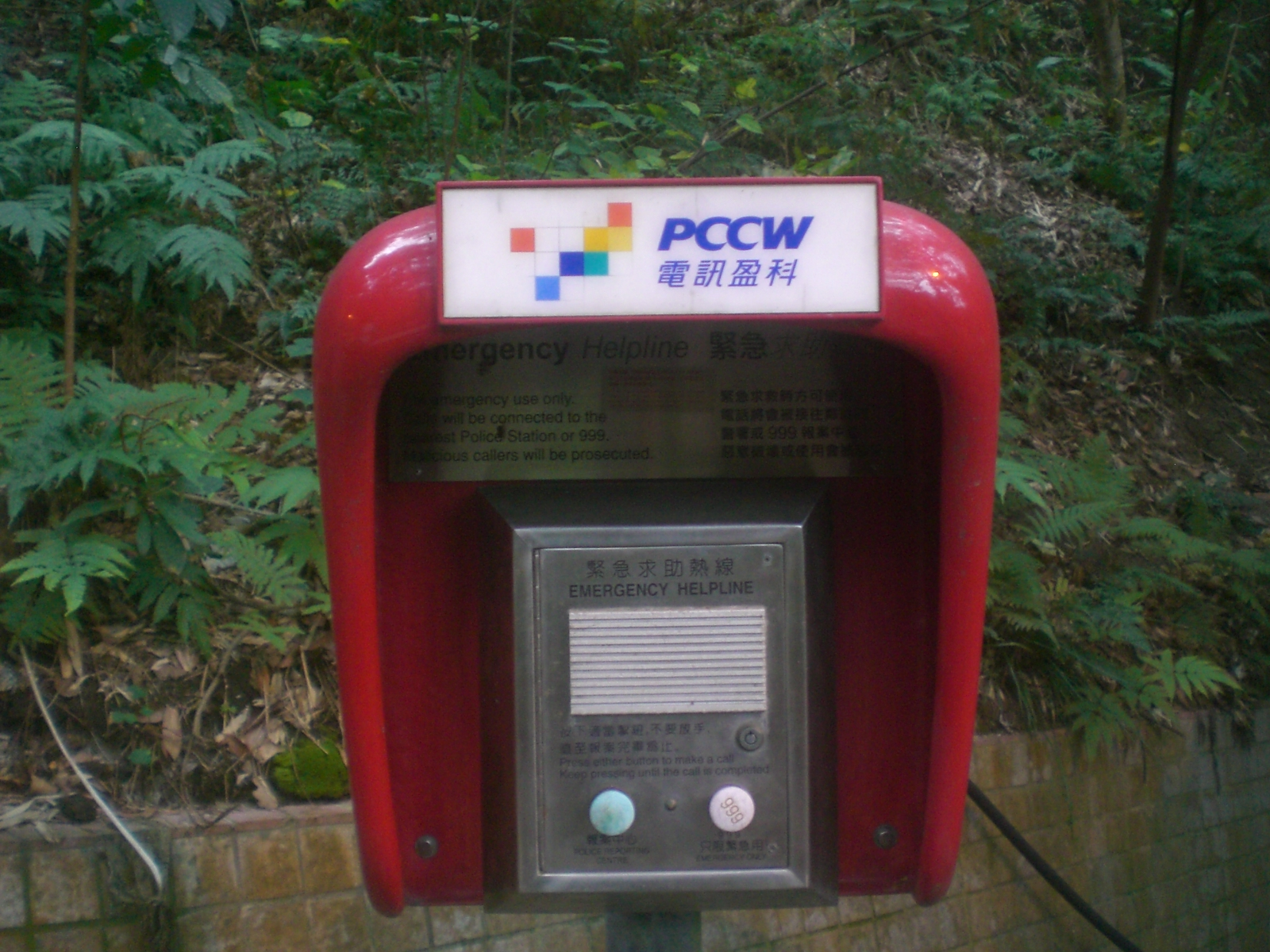 香港島寶雲道zh:灣坊亭